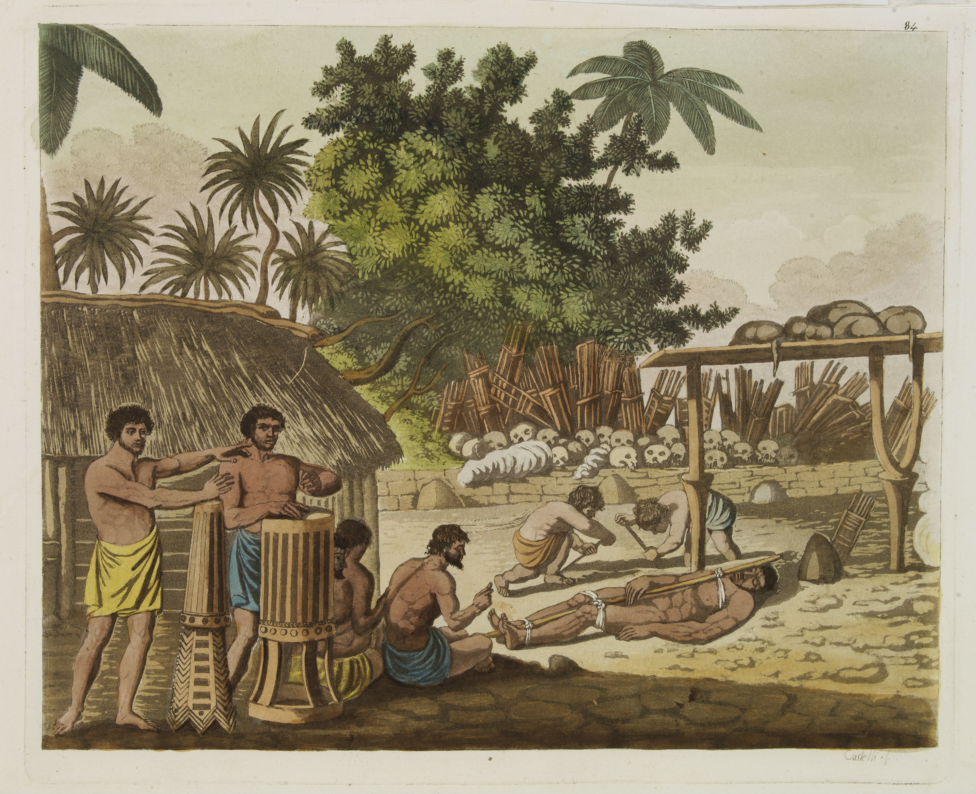 Representation of a human sacrifice in a morai at Otaheite in the presence of Captain Cook and his officers